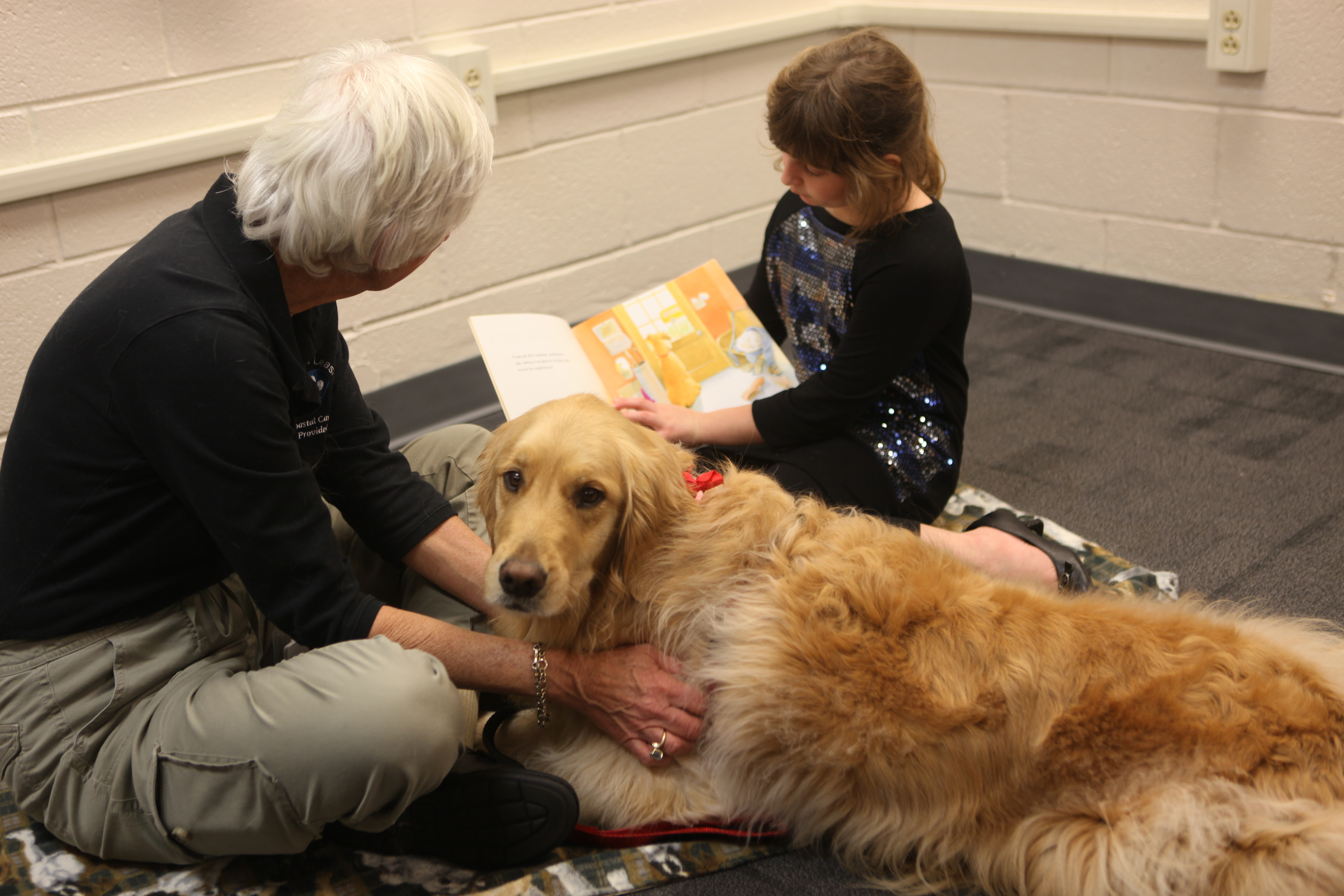 A participant of the Reading to Dogs event reads to Lilly, a trained Coastal Carolina Pet Provided Therapy dog and her facilitator, Pat Rapaport at the Harriotte B. Smith Library aboard Marine Corps Base Camp Lejeune, Jan. 11.